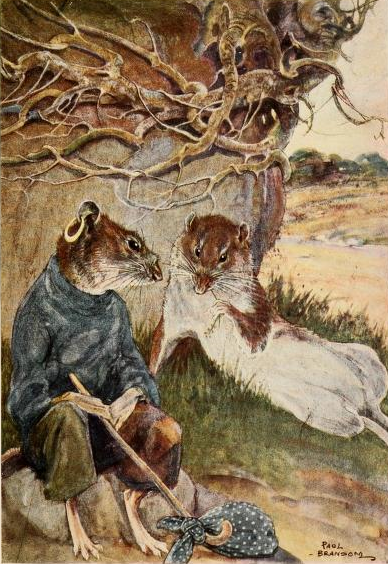 Wind in the Willows